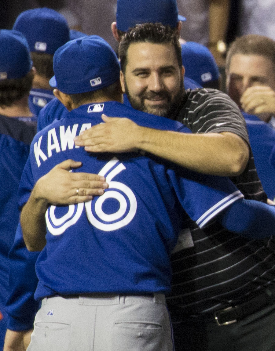 Alex Anthopoulos (right) and Munenori Kawasaki